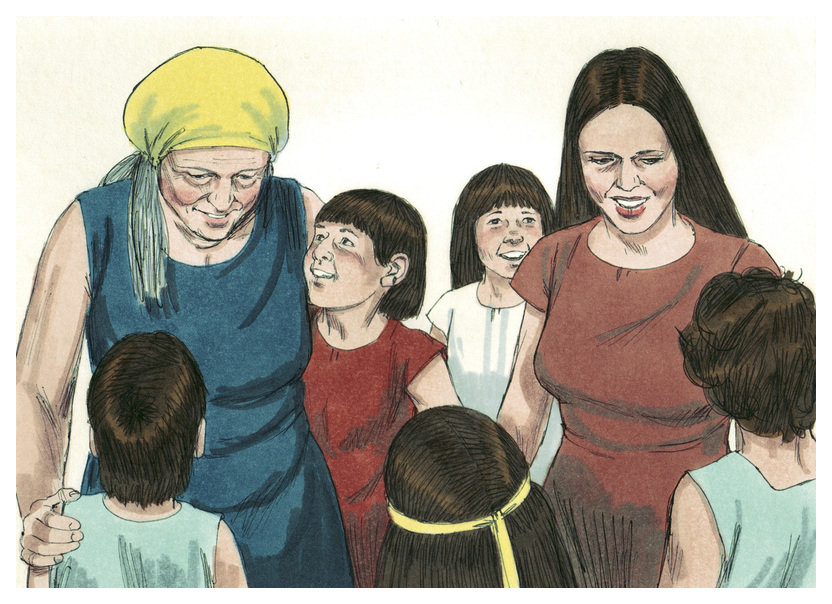 Biblical illustration of Book of Exodus Chapter 2